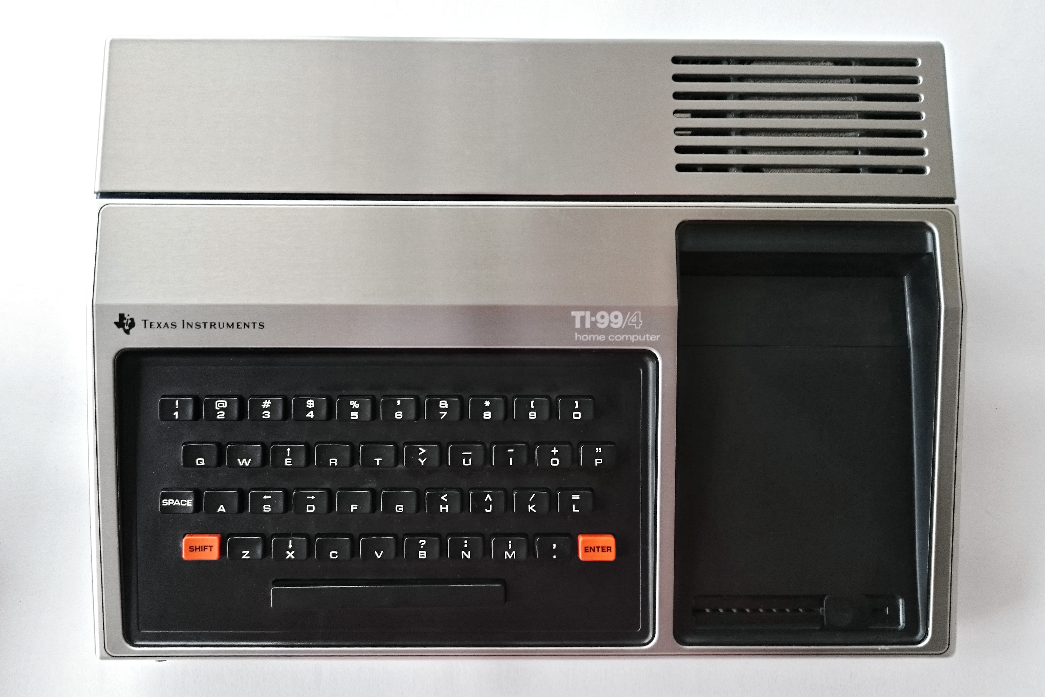 Photo of a Texas Instruments TI-99/4 (16 bit microcomputer from 1979)